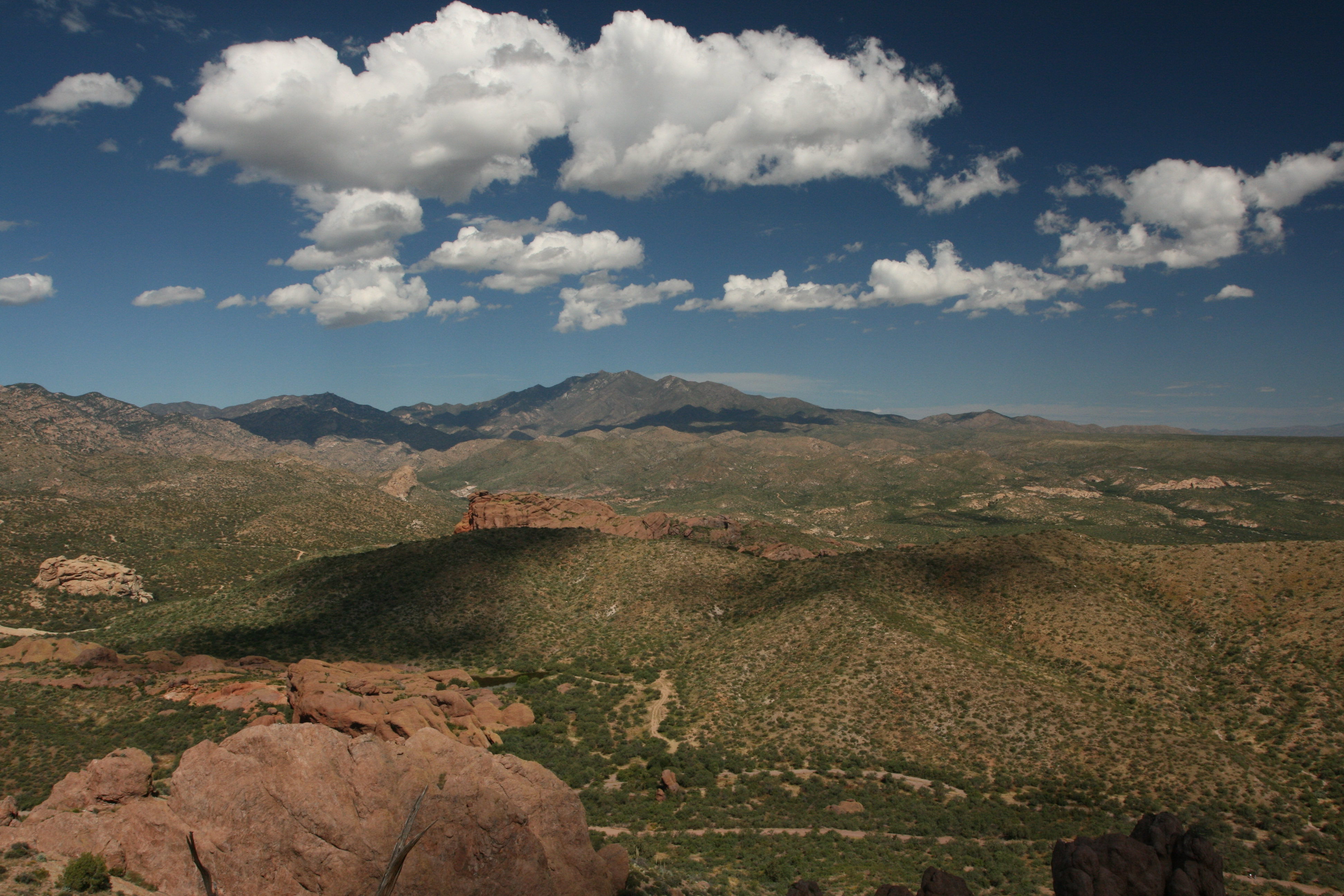 The 5,800-acre North Santa Teresa Wilderness is located about 25 miles west of Safford, Arizona in Graham County. The geologic landmark known as the Black Rock rises nearly 1,000 feet from its base while the remainder of this mile-long rhyolitic plug is encircled by cliffs of several hundred feet. To this day, the rock holds spiritual significance for local Native Americans as well as a mystique for visitors. Jackson Mountain rises to 5,890 feet southeast of the rock and is dissected by several canyons. The majority of this sister to the boulder-strewn Forest Service Santa Teresa Wilderness consists of desert and mountain shrub, grassland and riparian vegetation." For